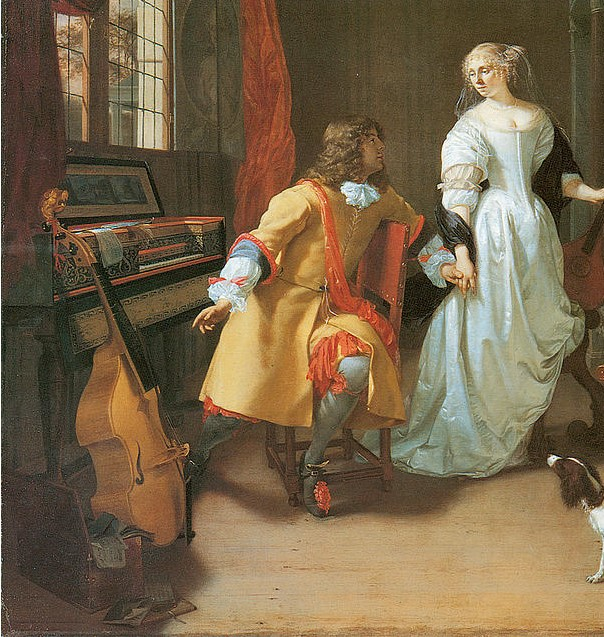 Detail of a picture of Jan Verkolje, "An elegant couple with musical instruments in an interior